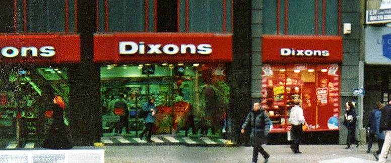 Dixons retail store in Sheffield, photographed in December 2000